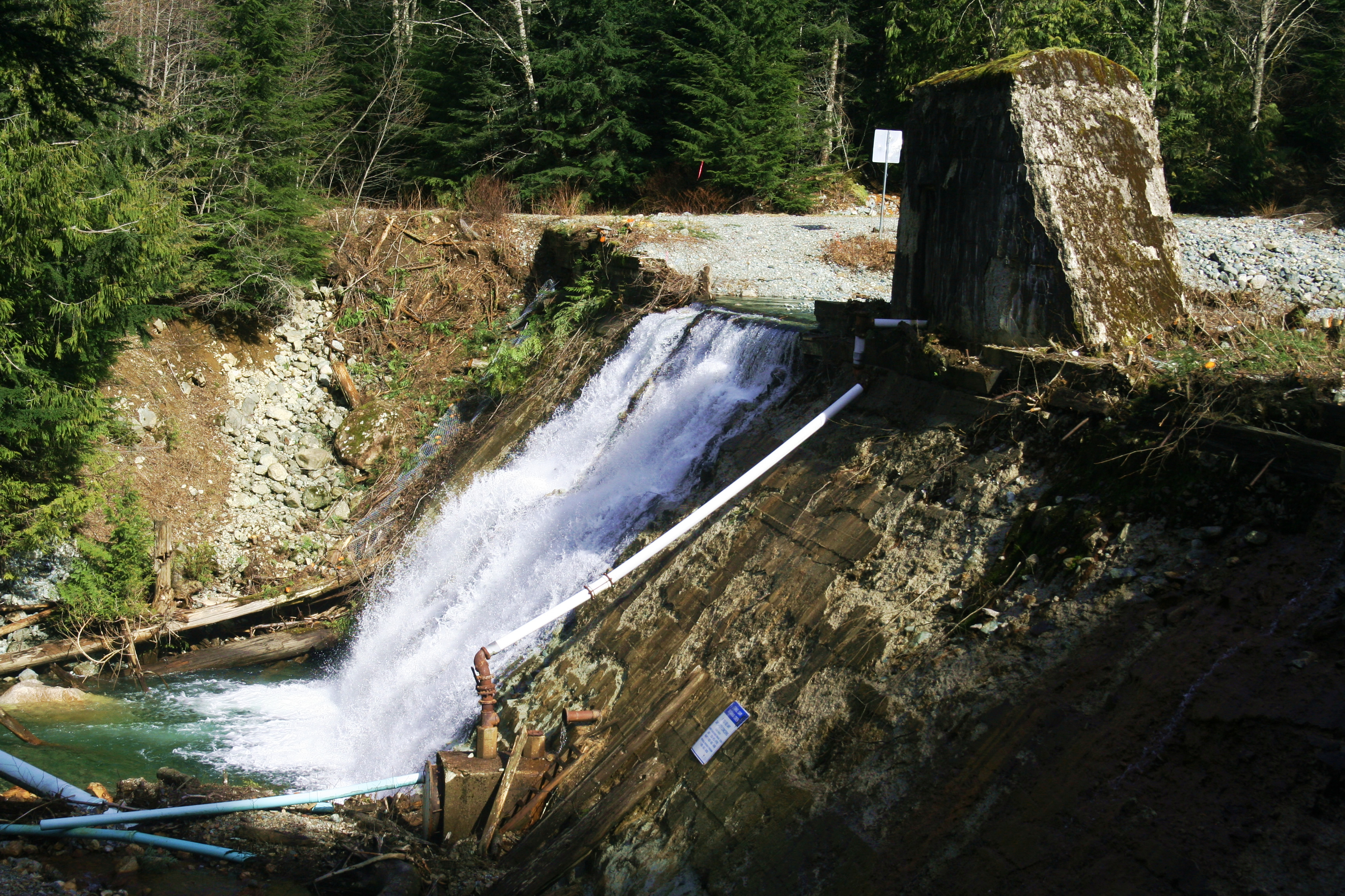 Image of Tunnel Dam taken on March 2015.